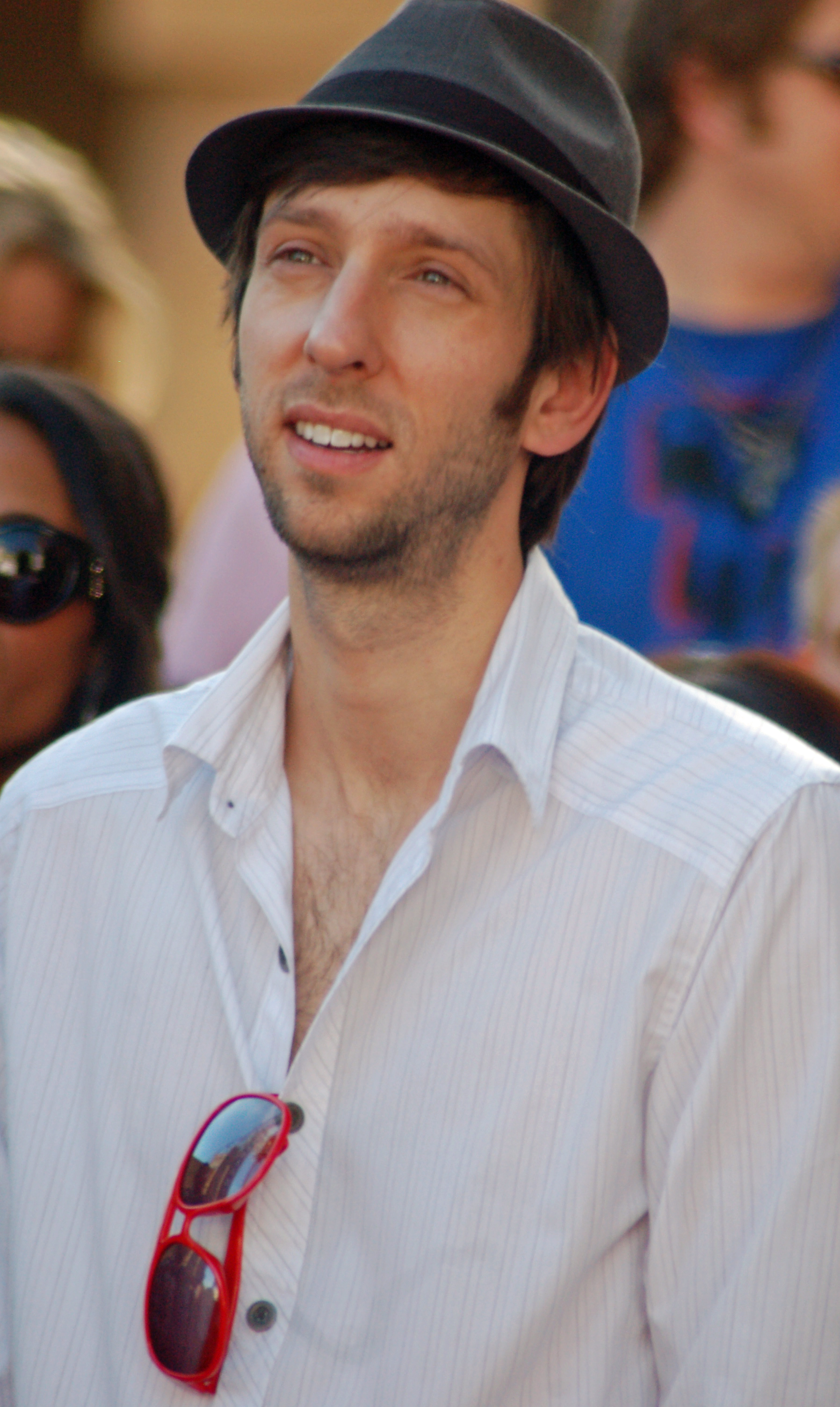 Joel Moore at a ceremony for James Cameron to receive a star on the Hollywood Walk of Fame.